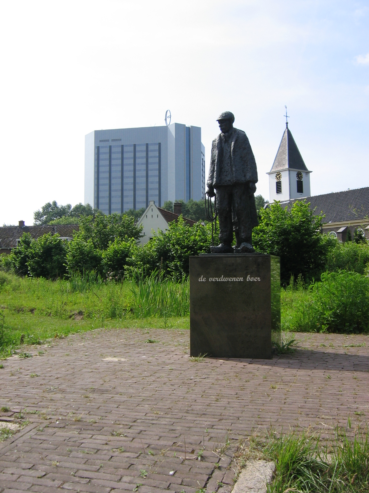 De verdwenen boer. Sloterdijk, now 'Oud Sloterdijk'. A village that is nowadays enclosed by huge trafficstructures of motorways and railroads.